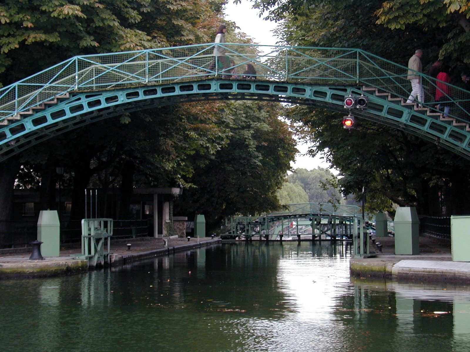 A bridge (passerelle Bichat) over Canal Saint-Martin in Paris.